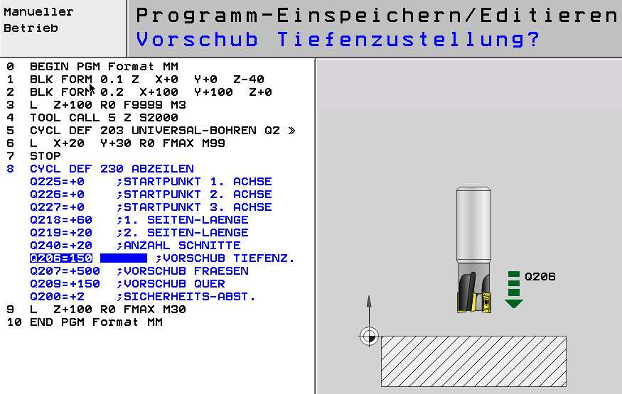 Display of input parameters to drilling cycle 203 Heidenhain in plain Language